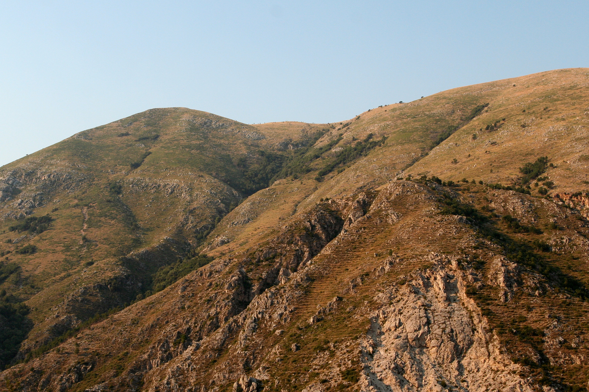 Mountains of the National Park of Llogara Vlora, Albania